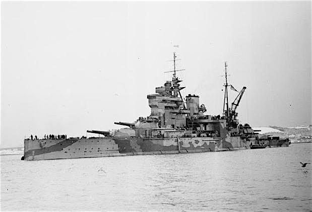 British Warships of the Second World War The battleship HMS QUEEN ELIZABETH secured to a buoy in the Firth of Forth.